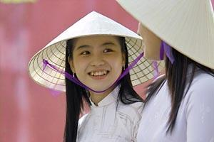 Young Vietnamese girl in aodai dress and non la hat.